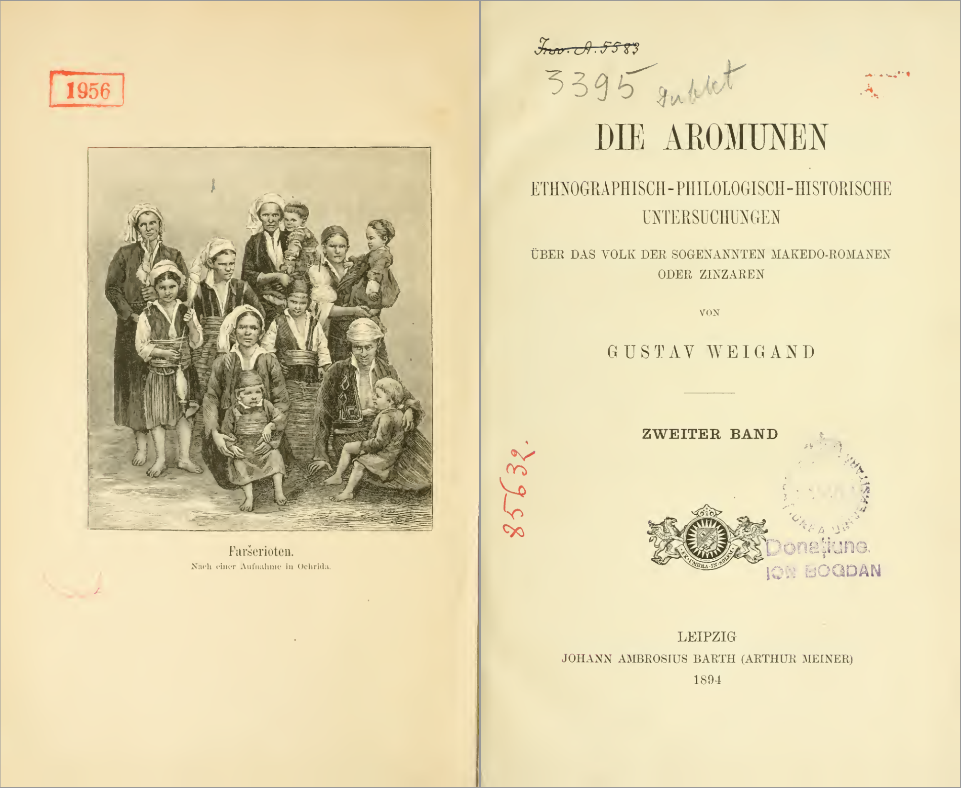 Pages 3 and 4 from Gustav Weigand's book "Die Aromunen"